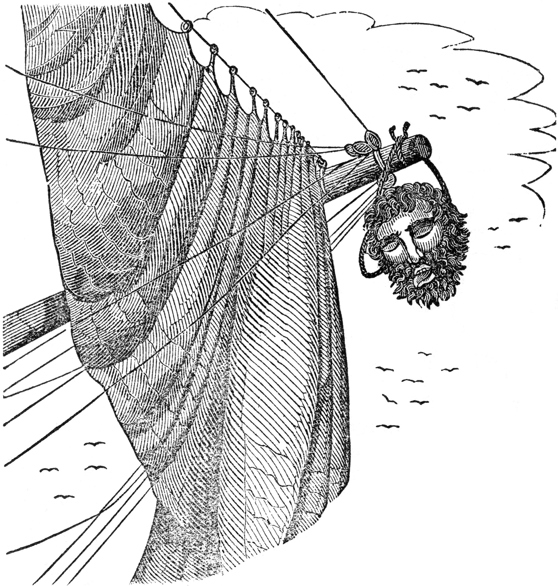 The pirate Blackbeard's head hanging from the bowsprit: this was published in Ellms, Charles (1842) [1837] "The Life, Atrocities, and Bloody Death of Black Beard" in The Pirates Own Book, New York, United States: A. & C.B. Edwards, pp. p. 319